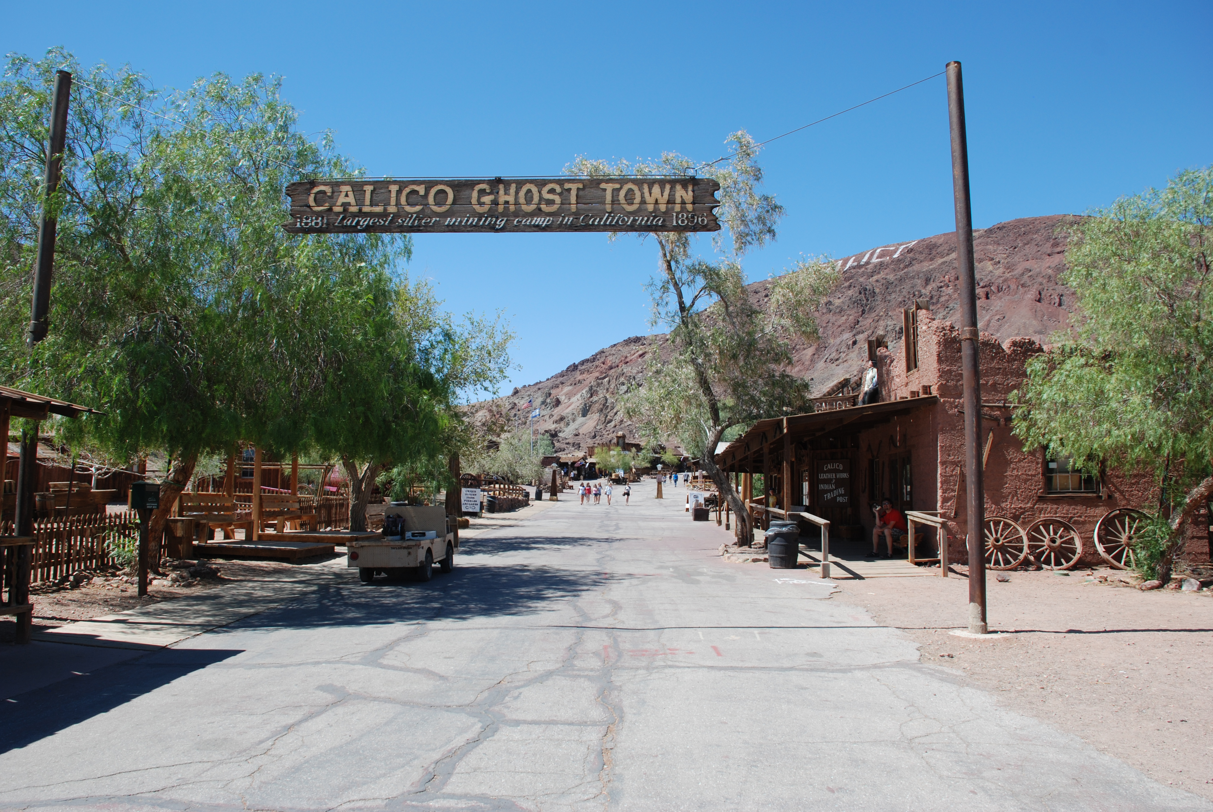 Entrance to Calico Ghost Town — an open air museum and park, in the Mojave Desert, California.